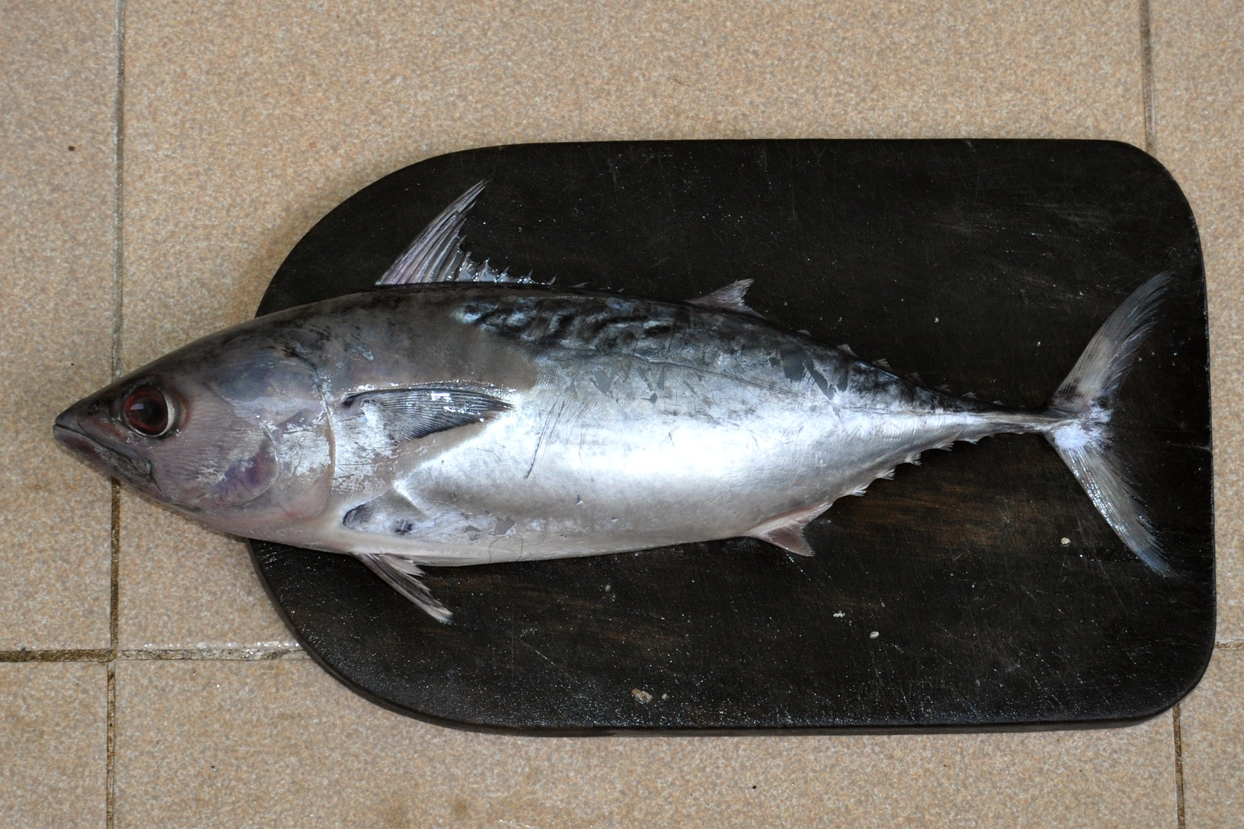 Little tuna Euthynnus affinis, ca. 30 cm FL; from local market in Jakarta, Indonesia.